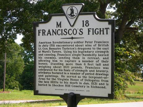 Photograph of the state historical marker on Route 360 recounting details of Francisco's Fight.